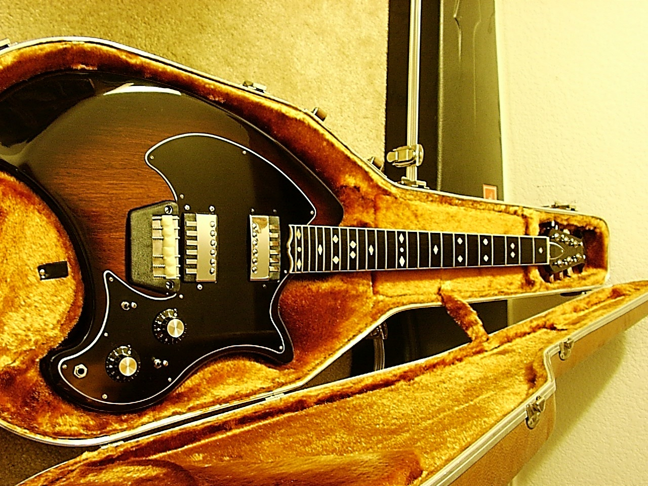 An example of a 1973 Ovation Deacon electric solid bodied guitar in its hardshell case (horizontally rotated version in 2011-12-20 17:04)